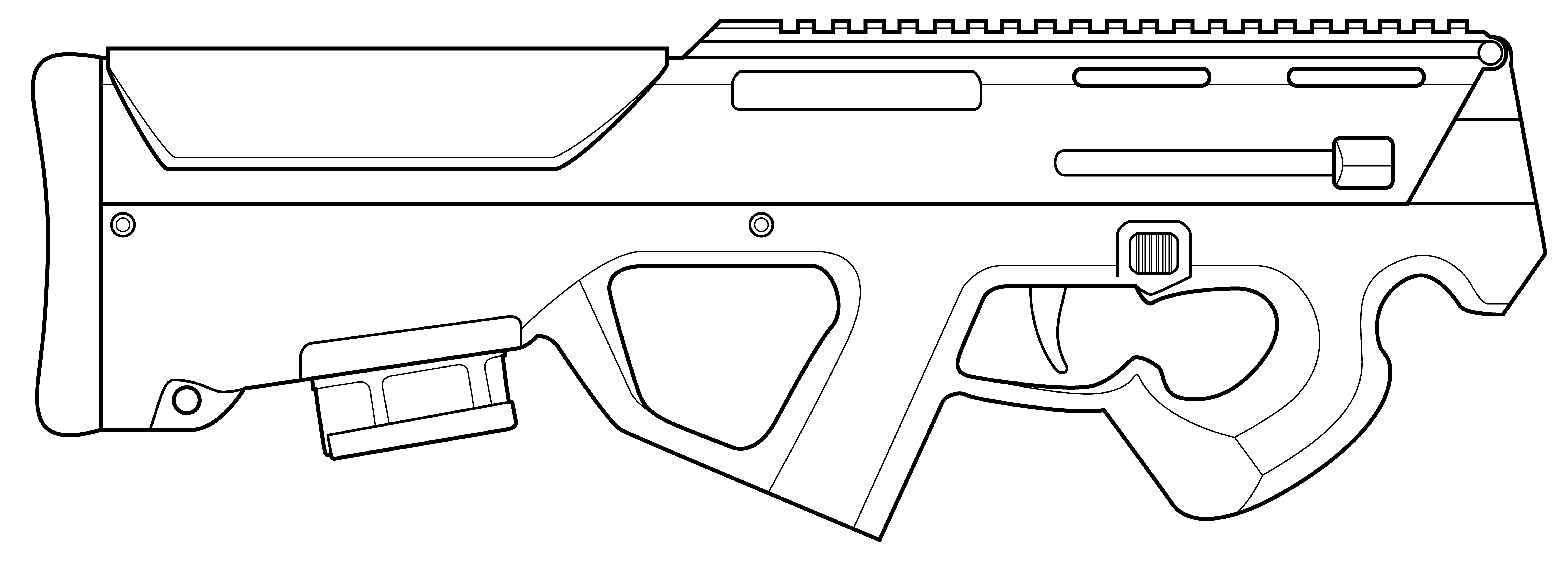 This is a line illustration of Magpul's Personal Defense Rifle.